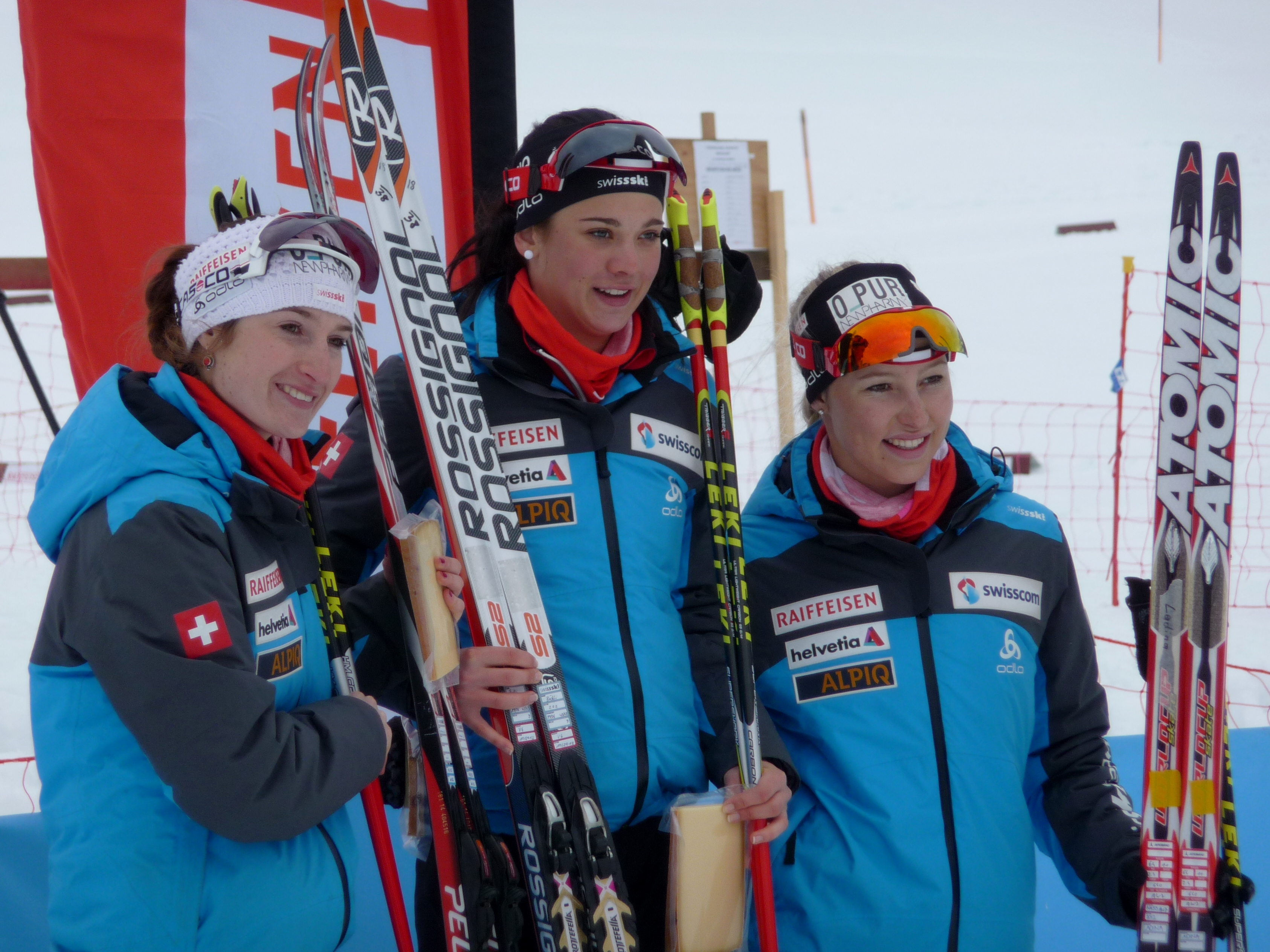 Swiss biathletes Flurina Volken, Patricia Jost and Ladina Meier-Ruge at National Championships in Biathlon 2013 (Podium Sprint Race Junior) in La Lécherette, Switzerland